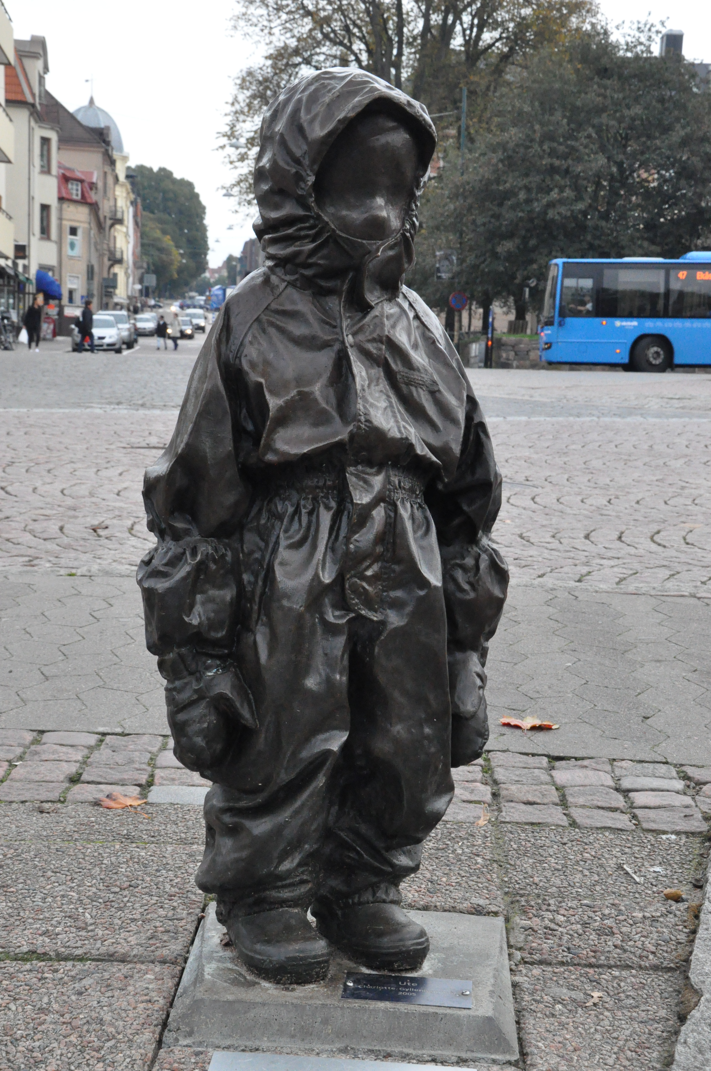 Charlotte Gyllenhammar´s Ute, Borås